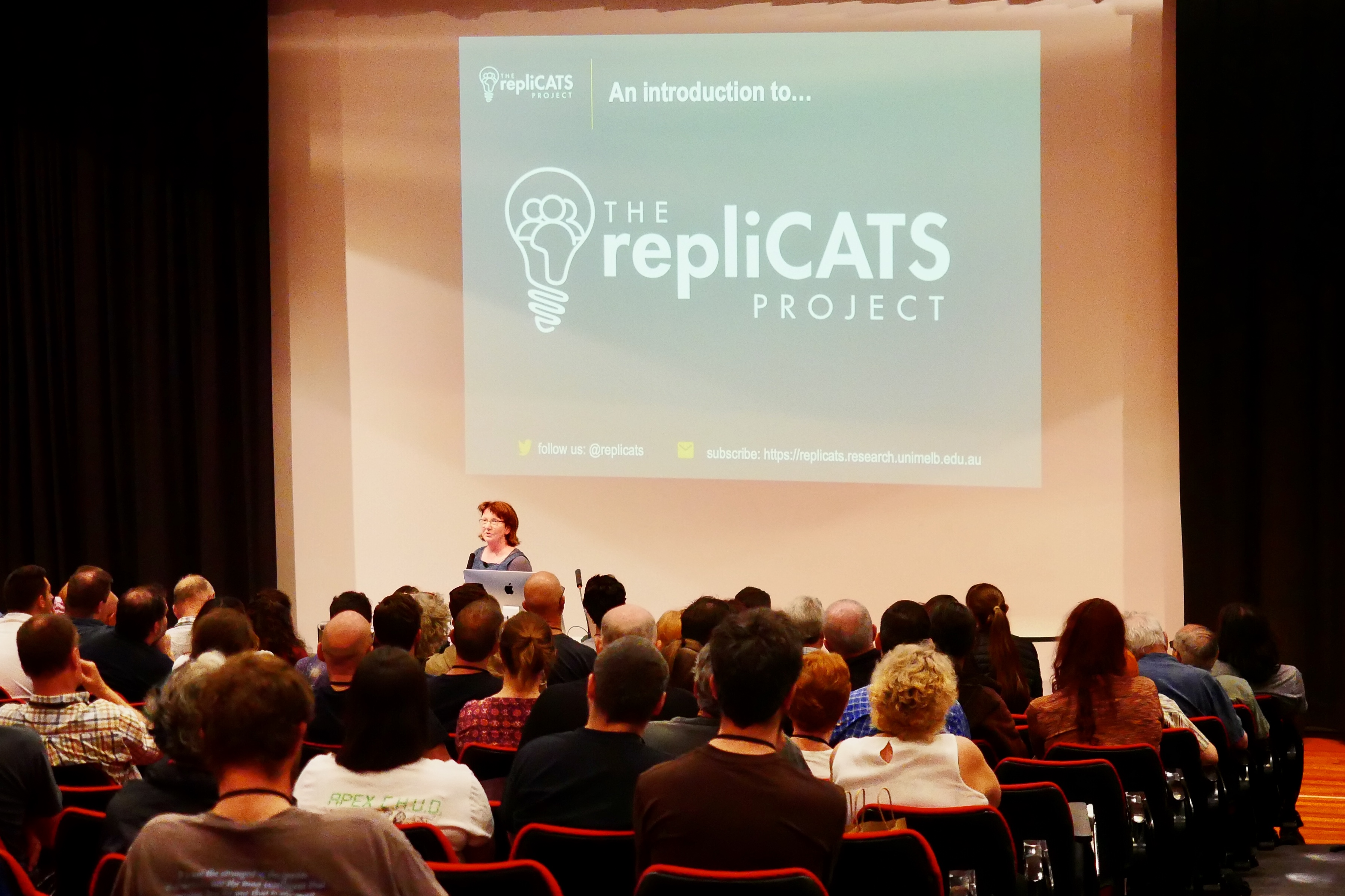 Fiona Fidler 2019 Lecture at Skepticon - Melbourne